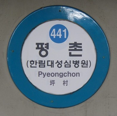 Pyeongchon Station